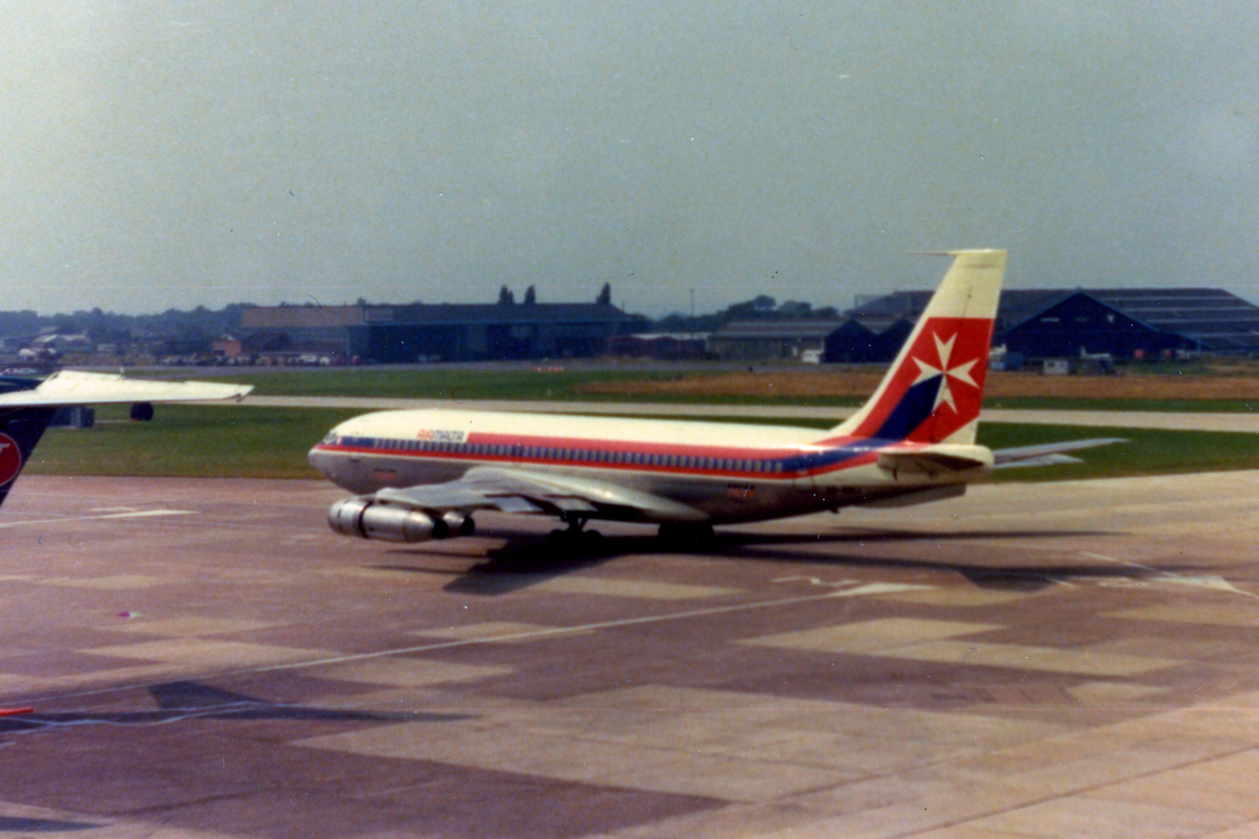 AP-AMJ a Boeing 720 of Air Malta at Manchester Airport, England